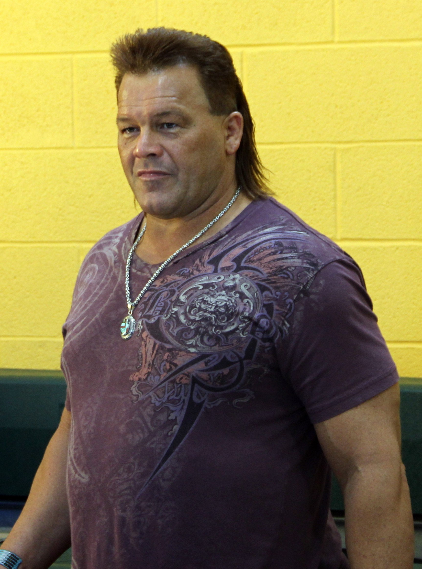 Professional wrestler Tatanka at Chikara King of Trios 2012 Fan Conclave.